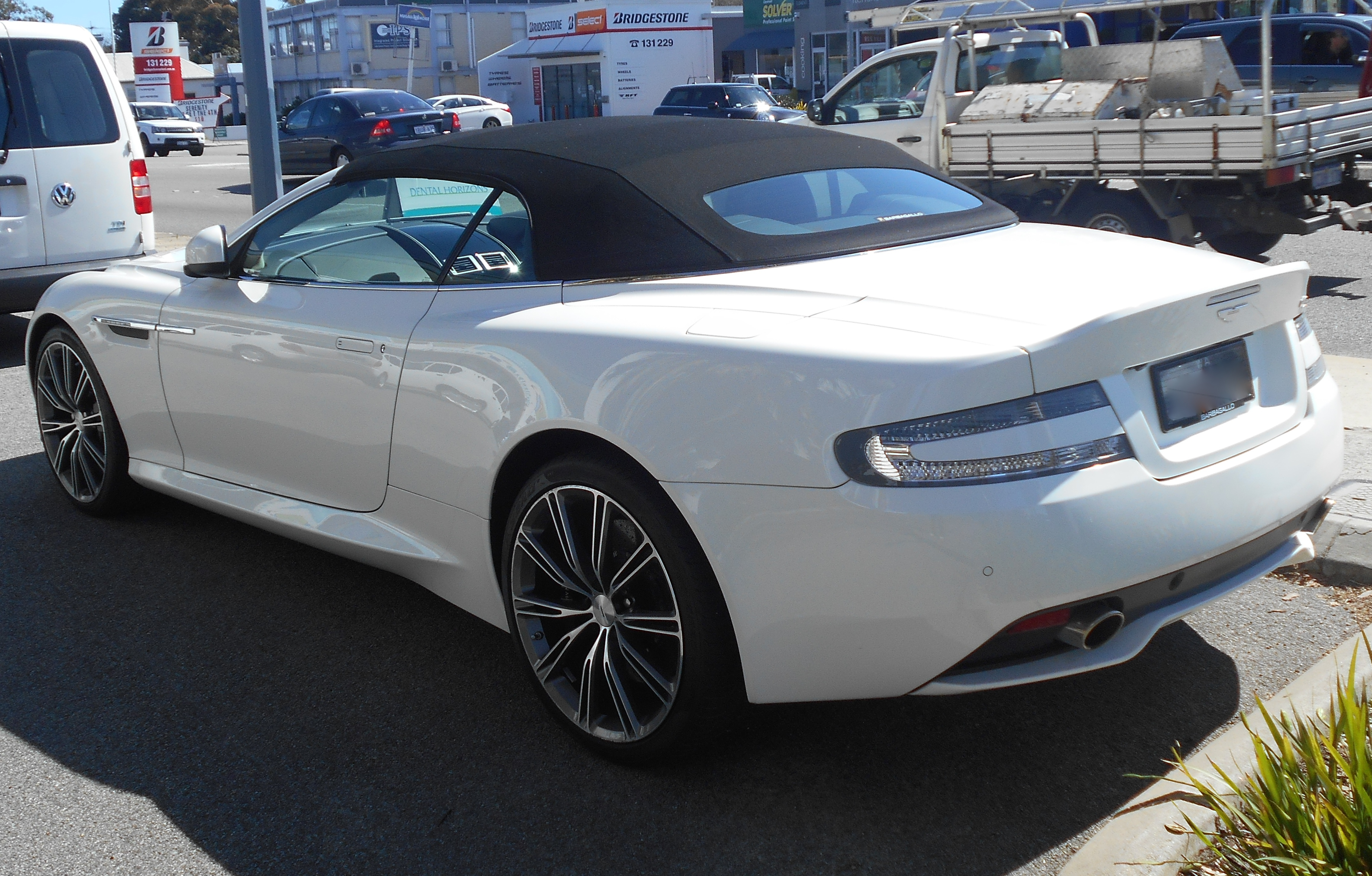 2014 Aston Martin DB9 Volante convertible. Photographed in Claremont, Western Australia, Australia